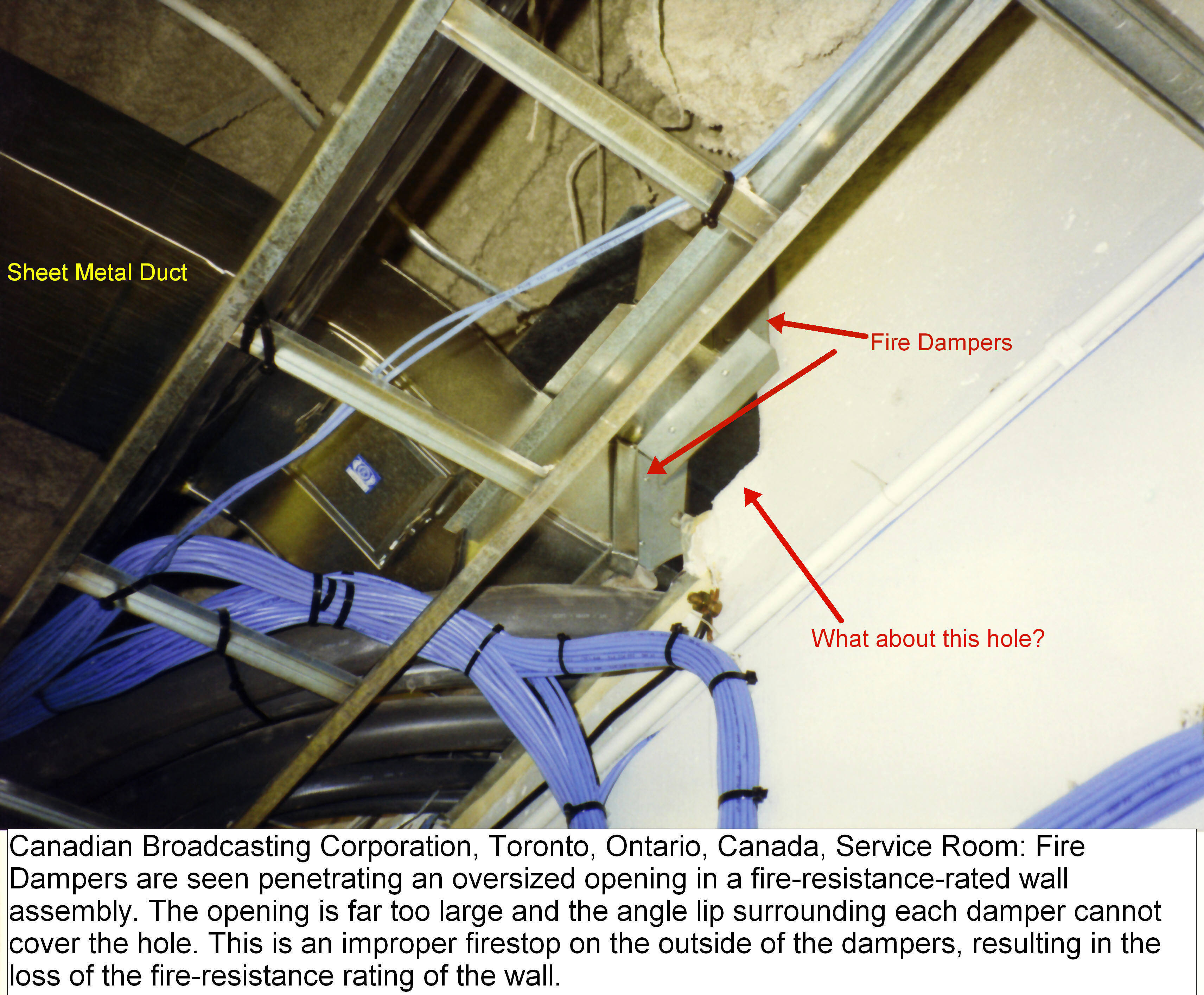 Canadian Broadcasting Corporation, Toronto, Ontario, Canada: improper fire damper penetration near a ladder type cable tray.